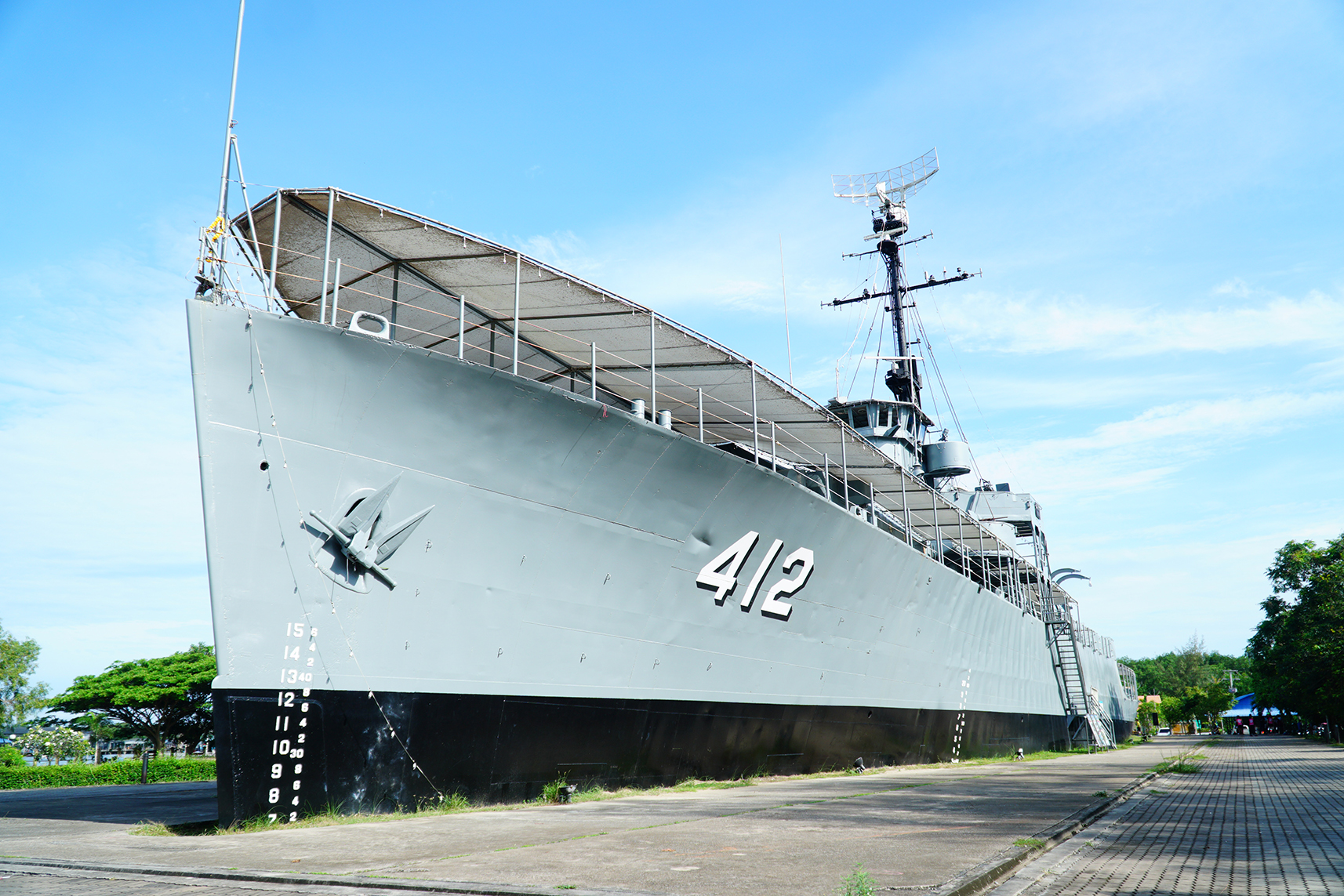 HTMS Prasae (PF 2)